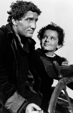 Cropped publicity photograph for the 1937 film Captains Courageous, featuring Spencer Tracy and Freddie Bartholomew. Such images were taken on set during filming, or as part of an organized photo-shoot, by a studio photographer. They were then disseminated to the media and the public to promote the film (see Film still). This is definitely a film still rather than a screenshot, as the quality is too high (compare, for instance, with this screenshot from the film). Public domain explanation It is unlikely that this image was secured with copyright protection, as stated by film induustry expert Gerald Mast in Film Study and the Copyright Law (1989) p. 87: "According to the old copyright act, such production stills were not automatically copyrighted as part of the film and required separate copyrights as photographic stills ... Most studios have never bothered to copyright these stills because they were happy to see them pass into the public domain, to be used by as many people in as many publications as possible." If there is any chance that the photograph was copyrighted, under the terms of the 1909 Copyright Act (which was law until 1978) it would have had to be renewed 28 years after publication, otherwise it entered the public domain. A search for copyright renewal records of 1965 ([1], [2]) reveal no trace that this occurred.